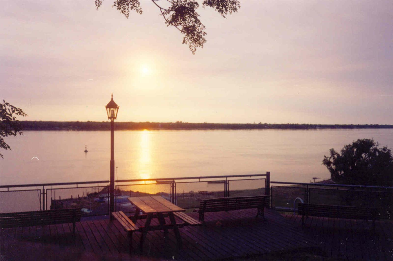 A view of the Paraná River from Rosario, Argentina, located in its western shore. I, Pablo D. Flores, took this picture myself.